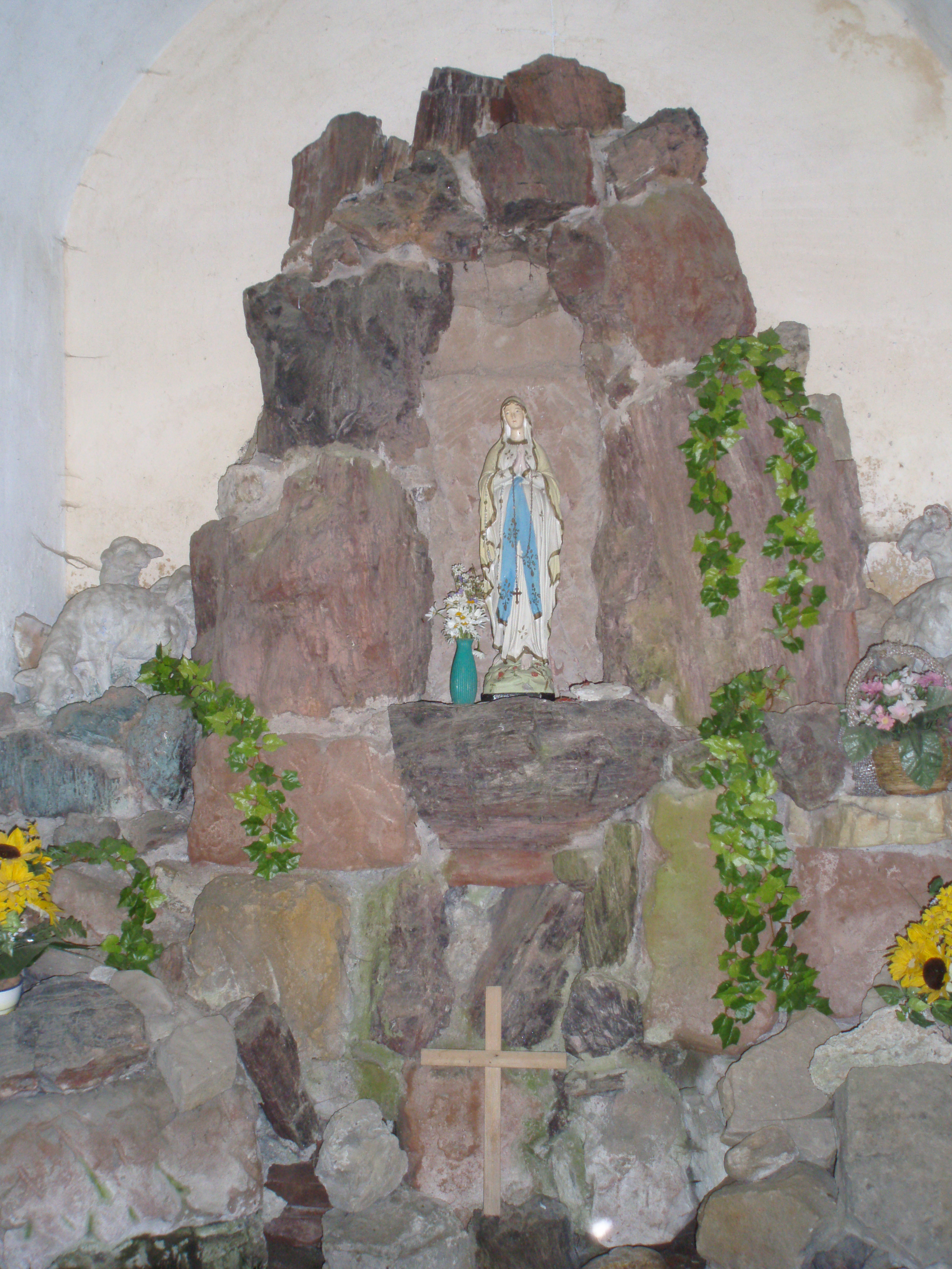 Interior of chapel in Boušín, part of Slatina nad Úpou municipality, Náchod District, Czech Republic.